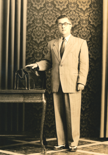 Retrato por Carlos Rivero Ortega. Fotografia Rembrandt. Imagen resguardada por la Fototeca Lorenzo Becerril A.C.